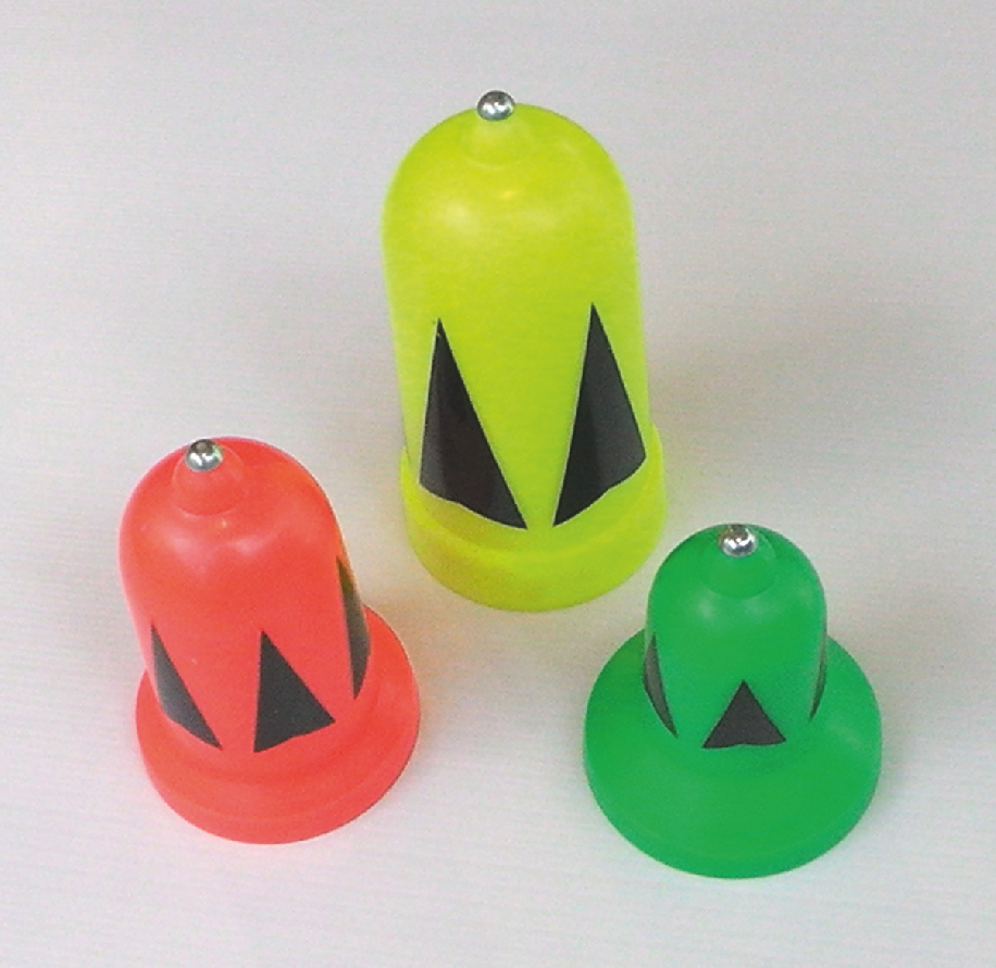 A set of three footops